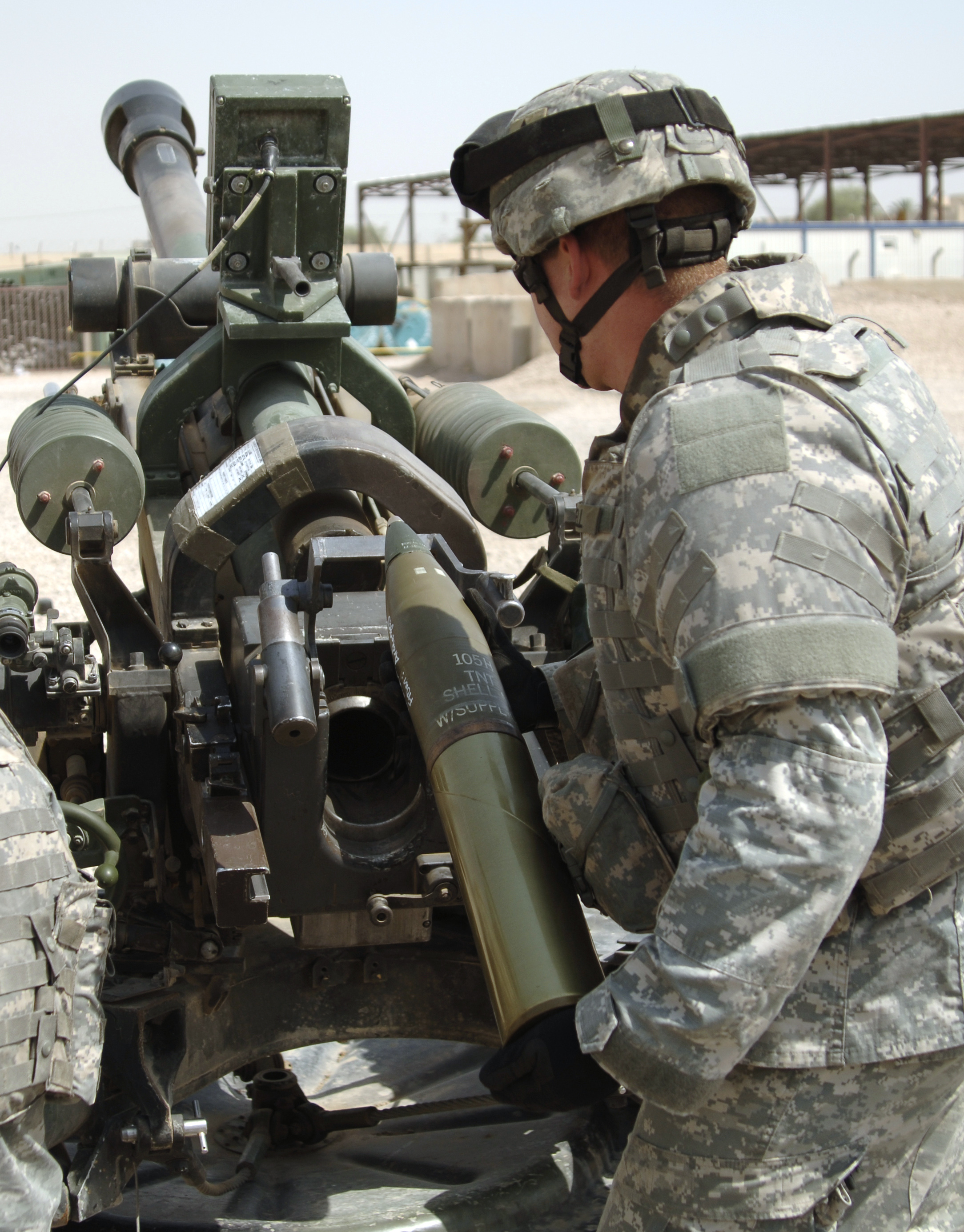 Baghdad, Iraq (Aug. 10, 2006) - U.S. Army Pfc. Melvin Odell of the "Archangels" from 4th Battalion, 320th Field Artillery, 506th Regimental Combat Team, 101st Airborne Division loads a 105mm artillery round into his 105mm M119-A2 Light Howitzer, during a weapon registration exercise. The Archangels registered their Howitzers on Forward Operating Base Loyalty as part of an annual requirement to ensure their accuracy. U.S. Navy photo by Mass Communication Specialist 1st Class Keith W. DeVinney (RELEASED)